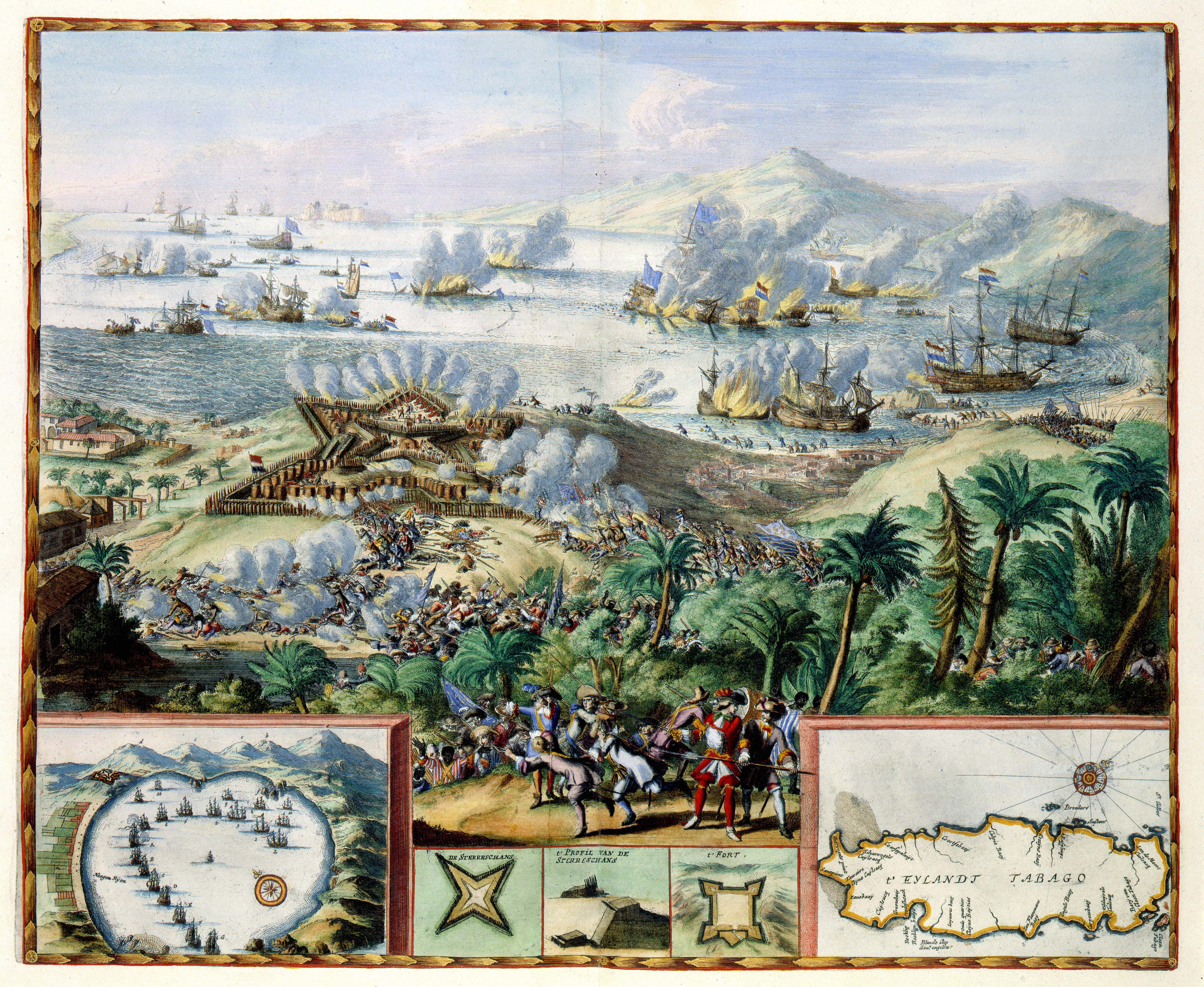 During the 17th and eithteenth centuries, the sea around the islands in the Caribbean was infamous for pirates. In 1676 The Netherlands sent an expedition led by Jacob Binckes with the purpose to end this piracy. In 1677 a confrontation was started near the island of Tobago with a French fleet. This battle which ended dramatically for the Dutch is represented by Romeyn de Hooghe (1645-1708) on this print.